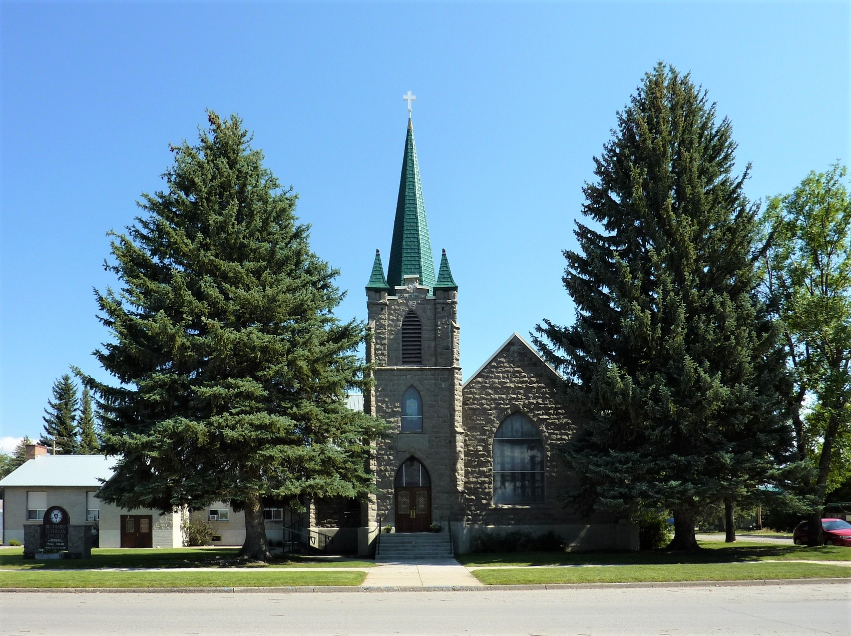 Big Timber Lutheran Church